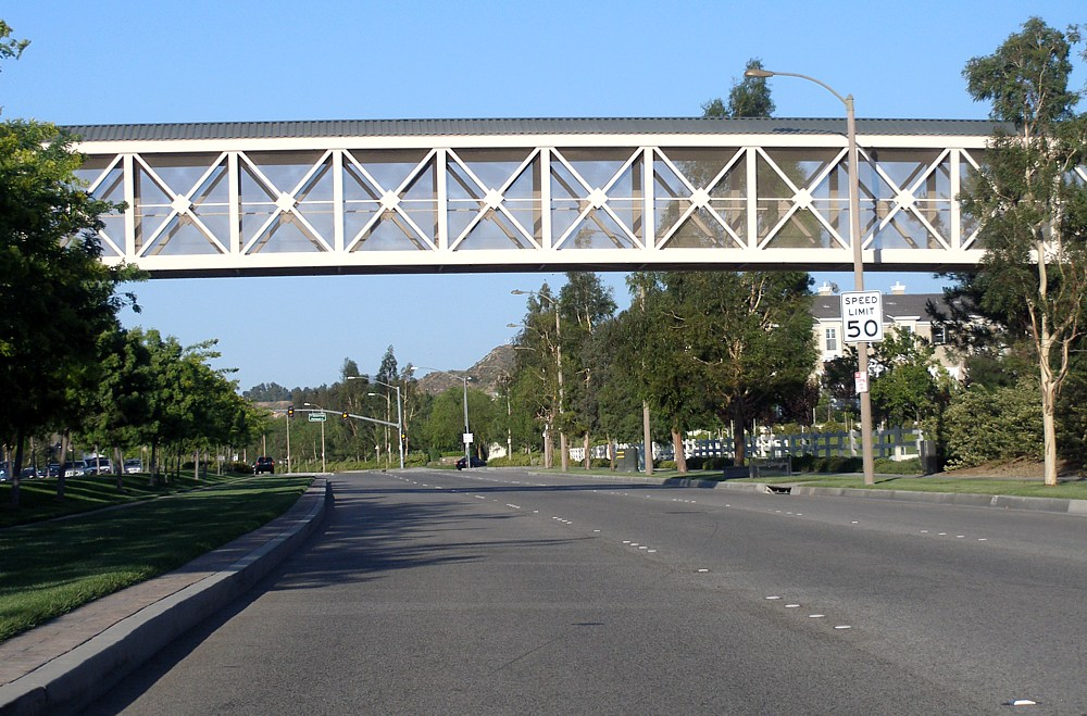 Newhall Ranch Road (part of the Cross Valley Connector) in Valencia (which is actually part of Santa Clarita). The bridge over the road is part of Valencia's unique network of grade-separated pathways, known as paseos.